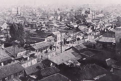 View of Daikyu(Daegu)